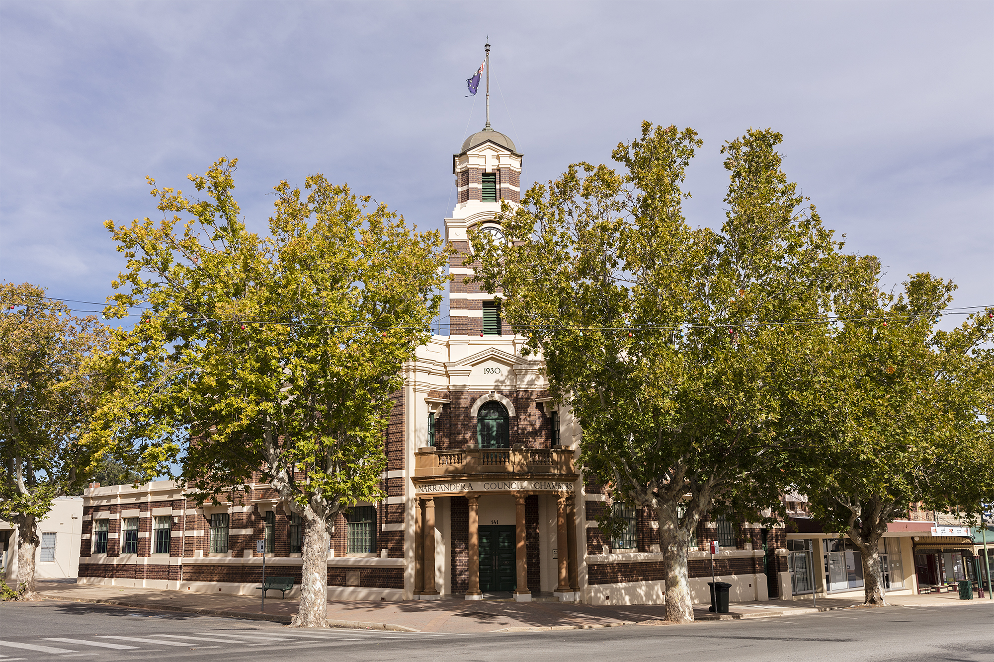 Narrandera Shire Council Chambers on the corner of Victoria Square and East Street in Narrandera.